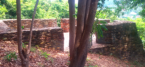 Fort 4, Singha Nakhon.